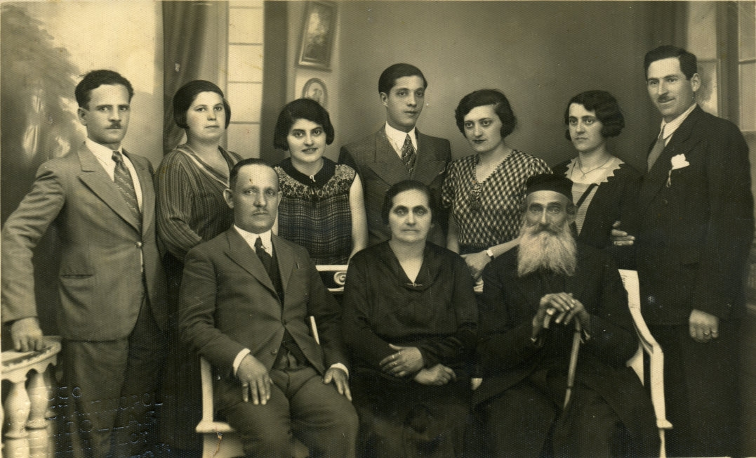 A jewish family in Galaţi, România between the mondial wars